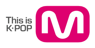 This is K POP Channel M Logo